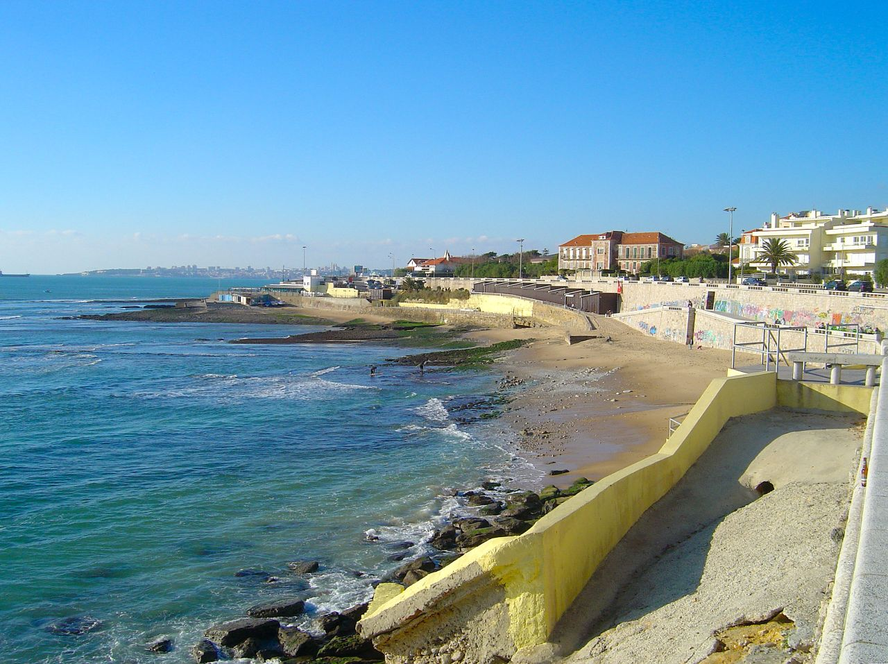 See where this picture was taken. [?]